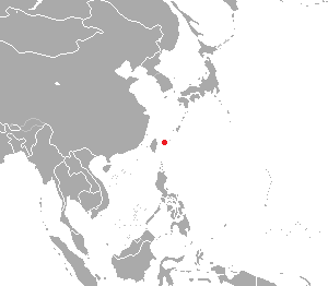 Distribution of the Iriomote Cat